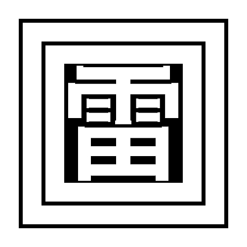 Japanese family crest "Mimasu no naka ni Ikaduchi", three volume measuring boxes (masu) stacked, carrying a kanji "雷" (ikaduchi or kaminari, thunder) in the center